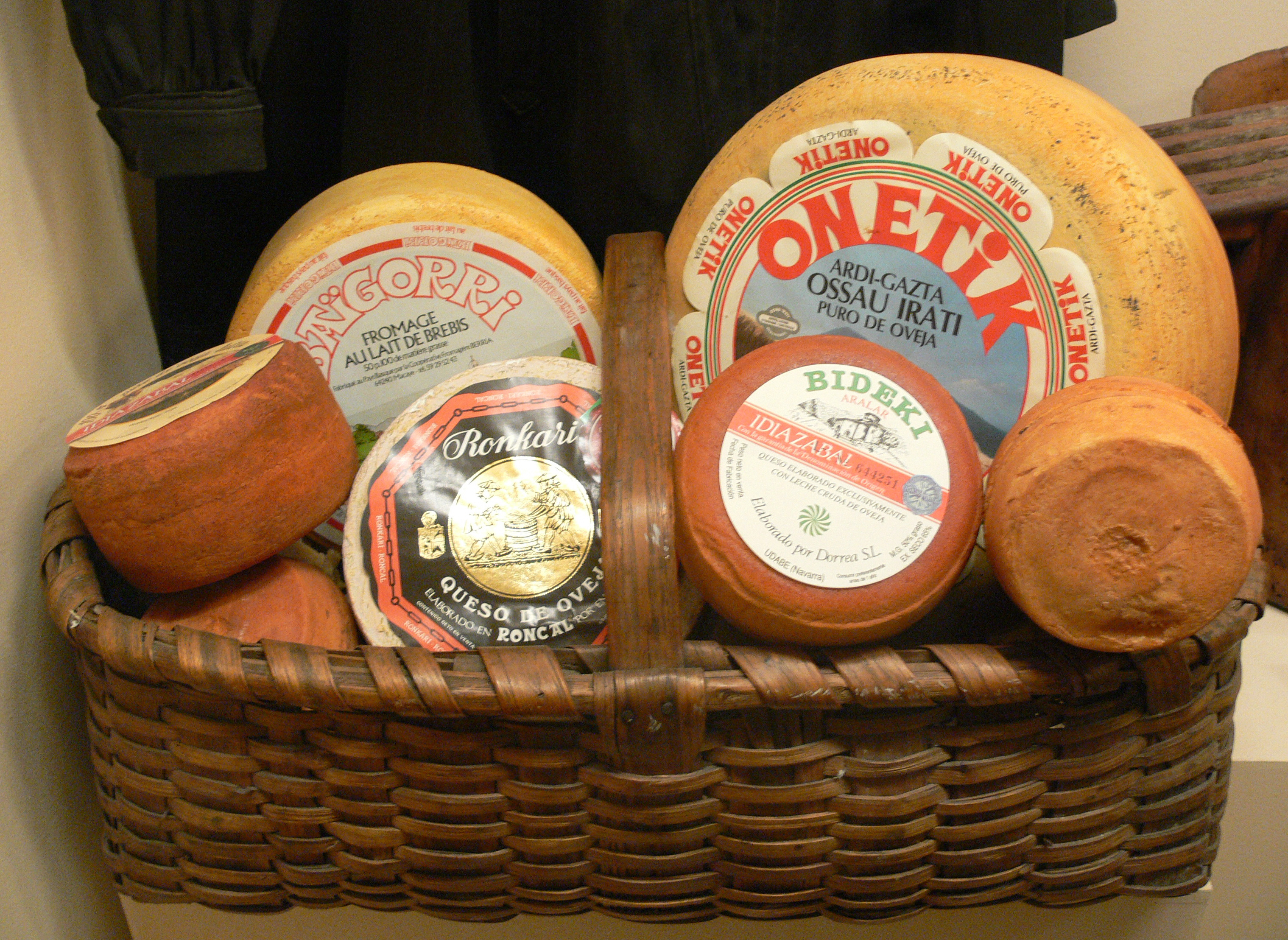 Basque cheese.